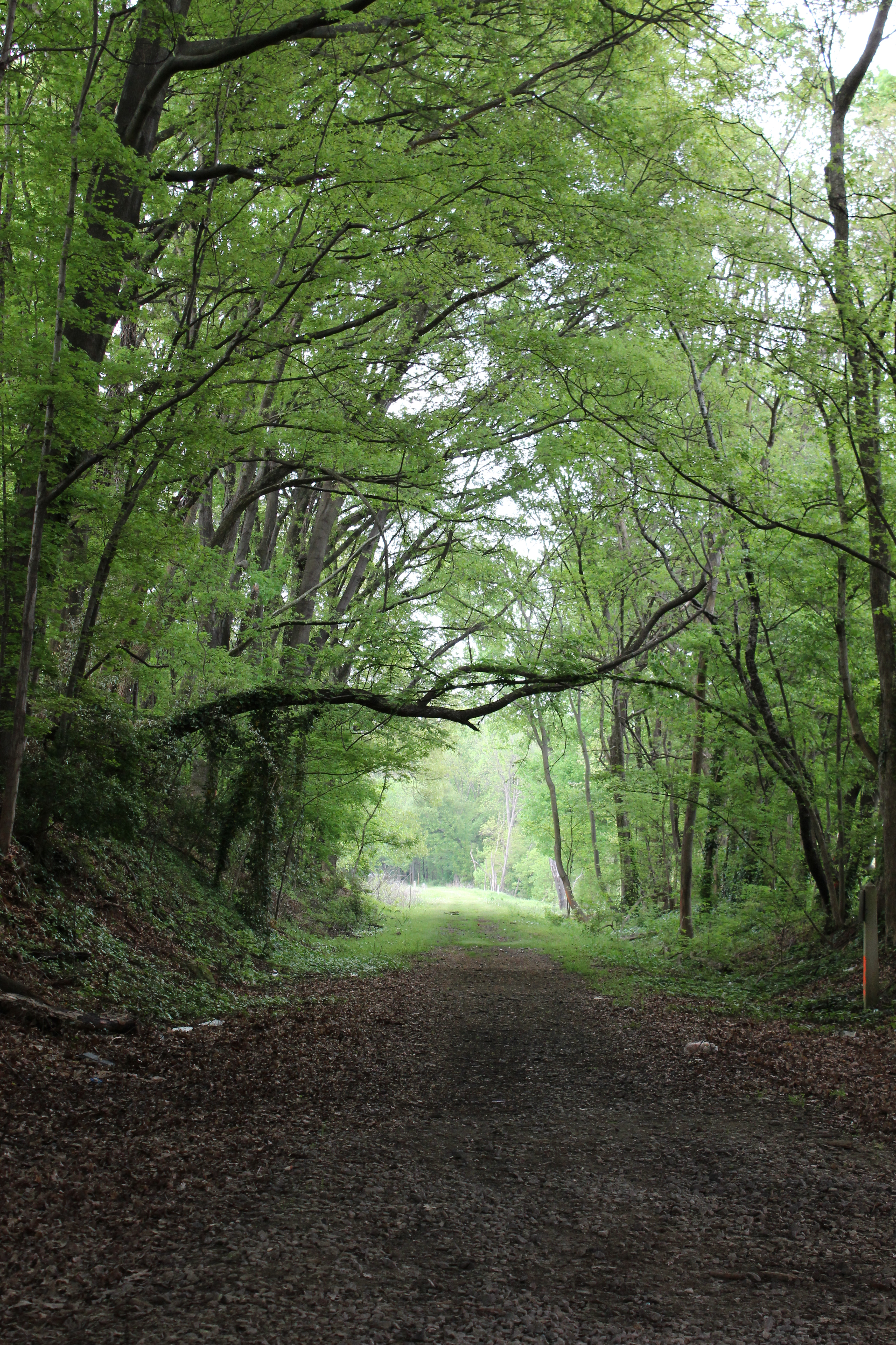 The Westside Beltline is a yet unpaved mixed-use green space in the Atlanta Metropolitan region. Established on the site of a former railroad line, the Westside Beltline links the neighborhoods of West End, Adair Park, Washington Park, and Vine City.